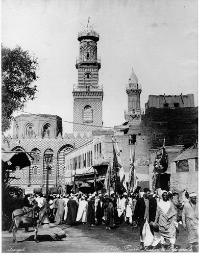 Sufis Mawkeb in Cairo, Egypt, photo by Zangaki in 1870